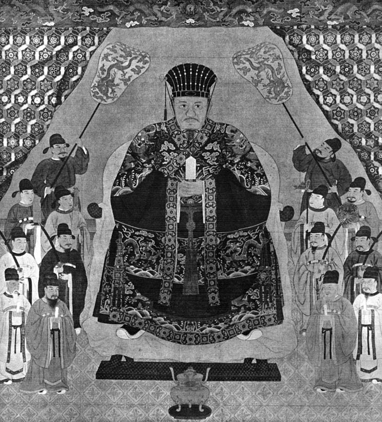 King Shō Kei, 1700-1752